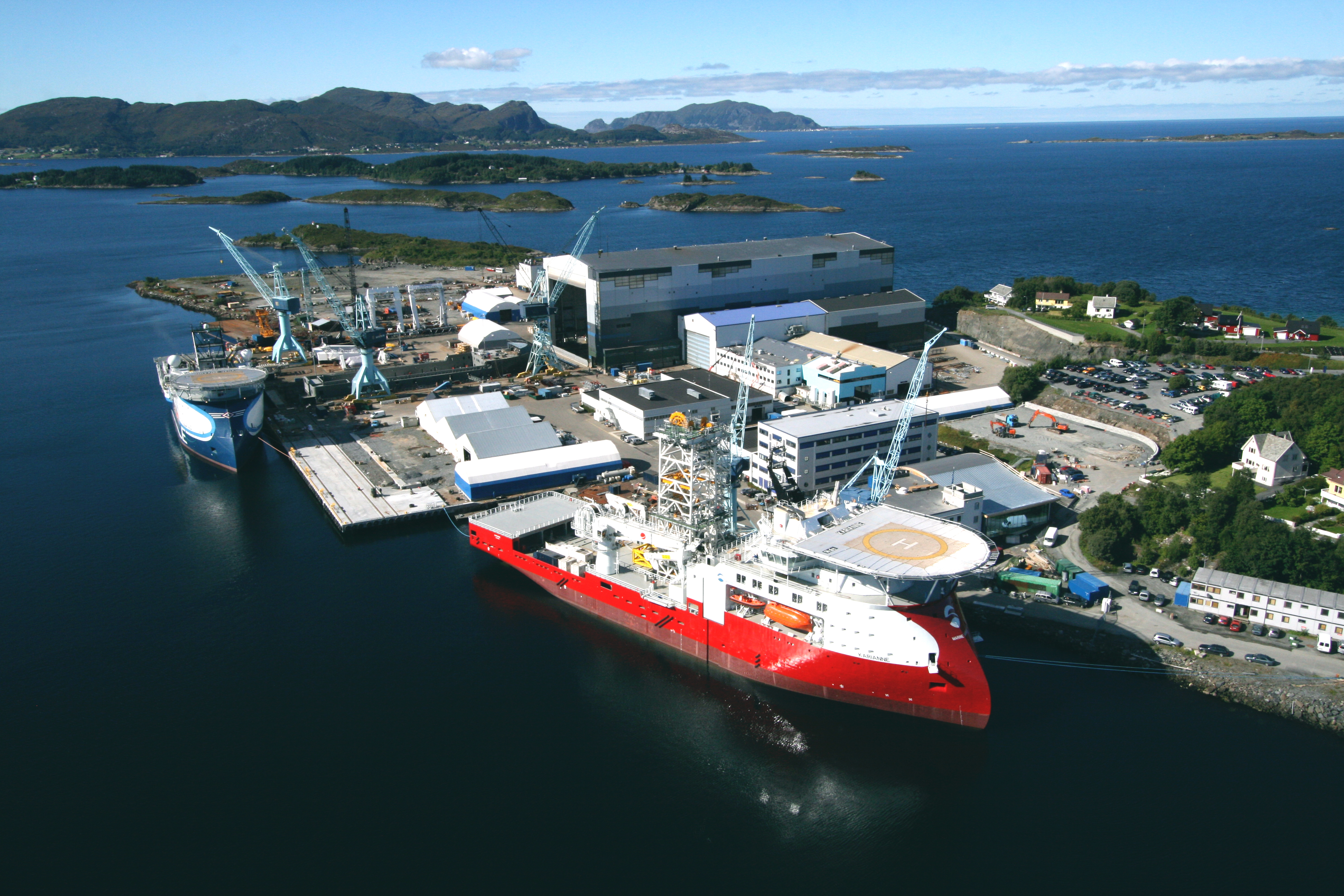 Ulstein Verft, Norway, from air, photo taken 2010